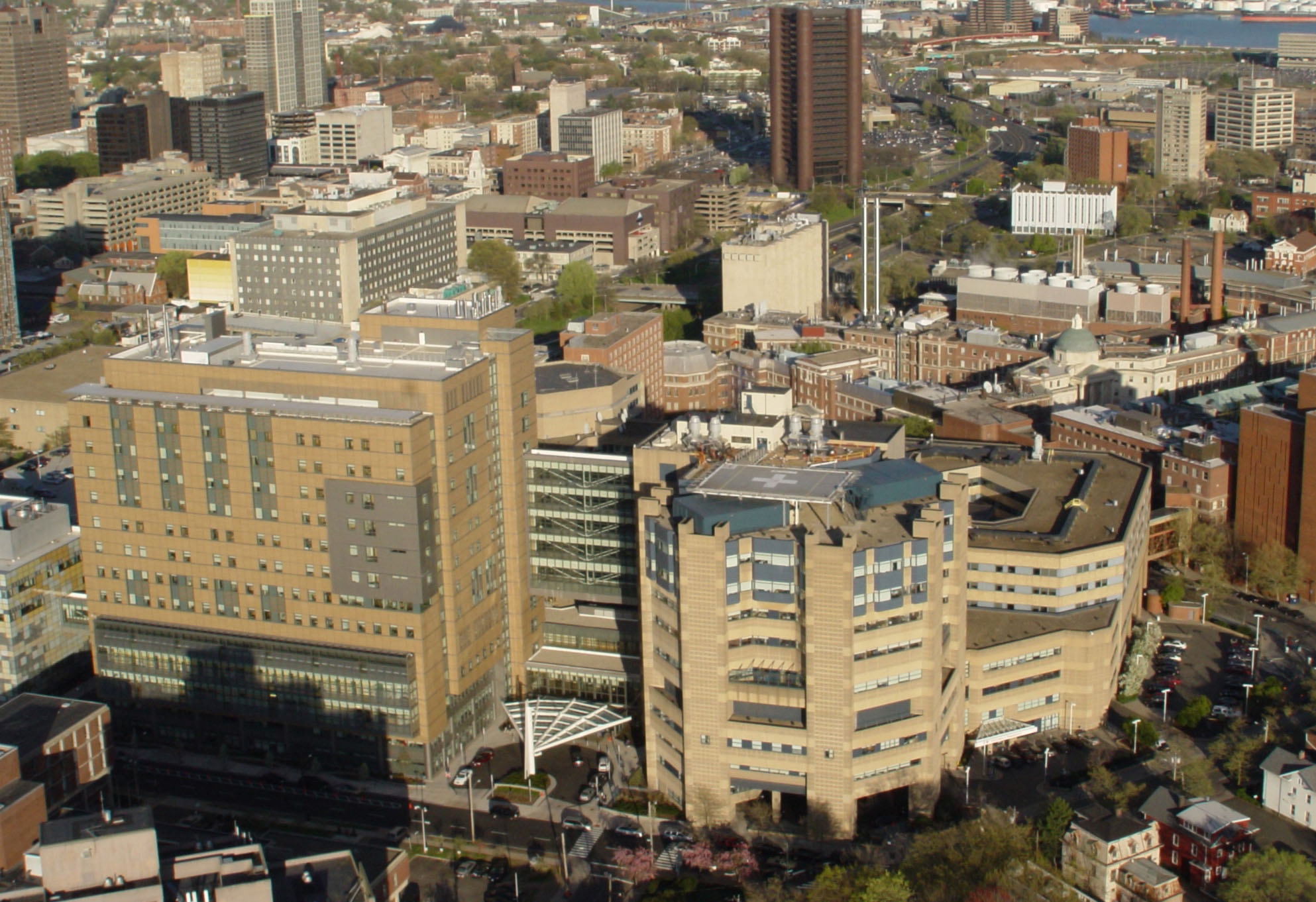 Aerial view of the campus of Yale-New Haven Hospital in Connecticut, including Smilow Cancer Hospital at Yale-New Haven and Yale-New Haven Children's Hospital.